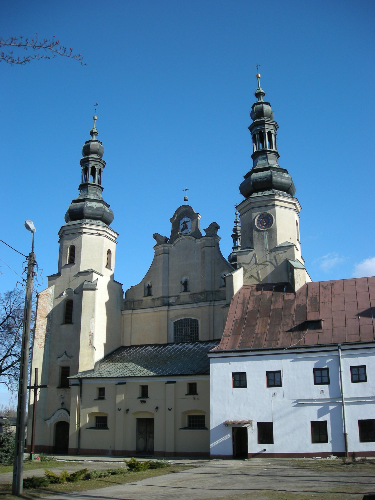 The church in Warta, Poland.